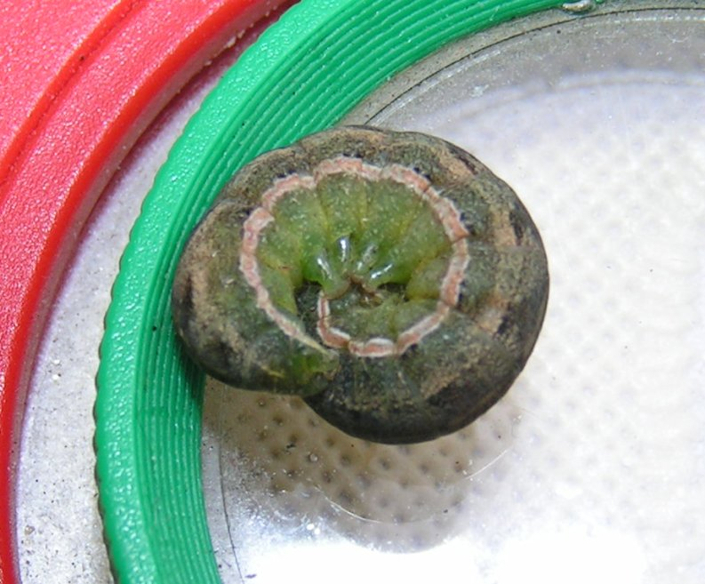 Anarta trifolii (syn. Hadula trifolii), larva. Location: The Netherlands - Venray